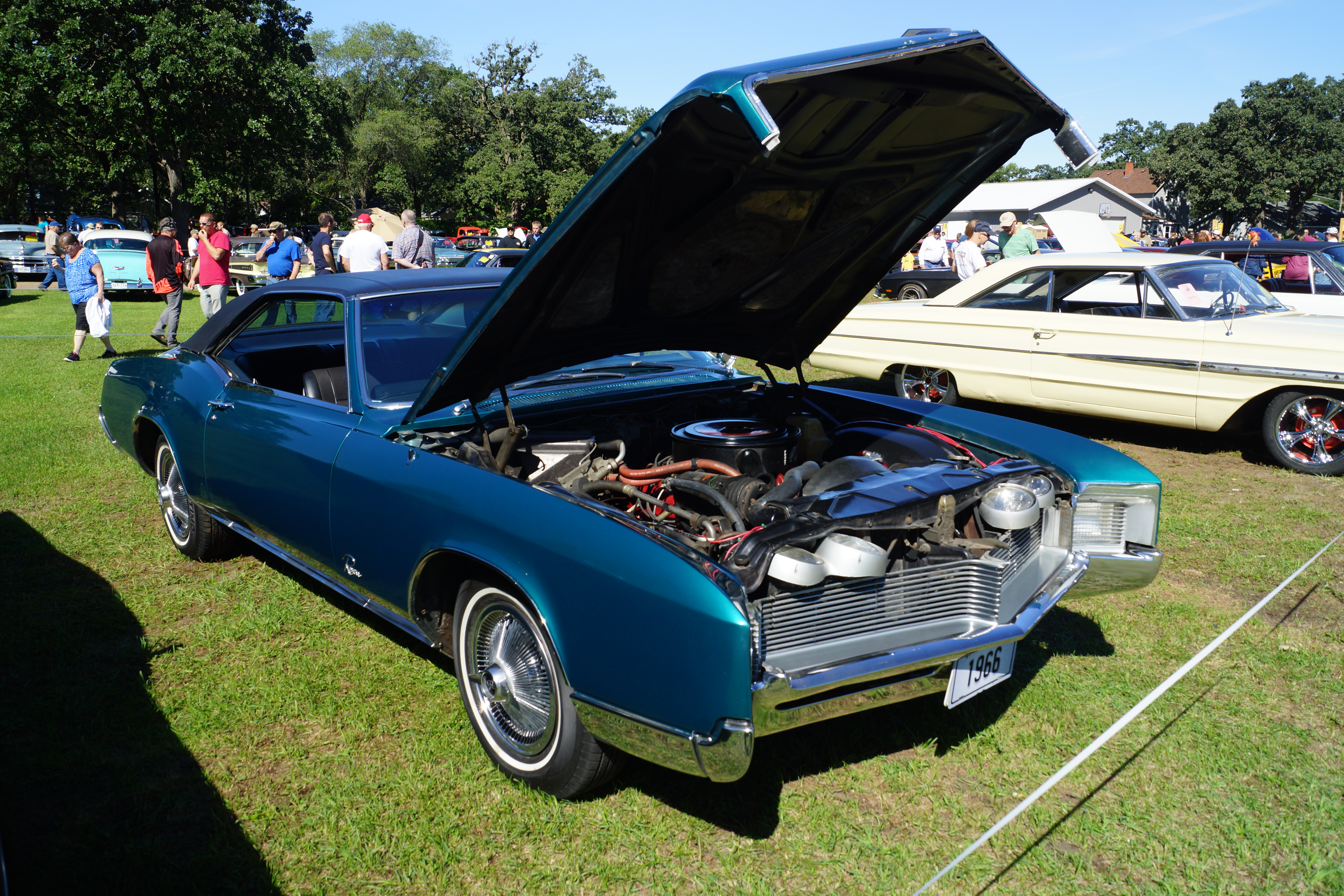 41st Annual Pantowner's Car Show & Swap Meet St.Cloud Antique Auto Club Benton County Fairgrounds St.Cloud, Minnesota August 2016 Click here for more car pictures at my Flickr site.